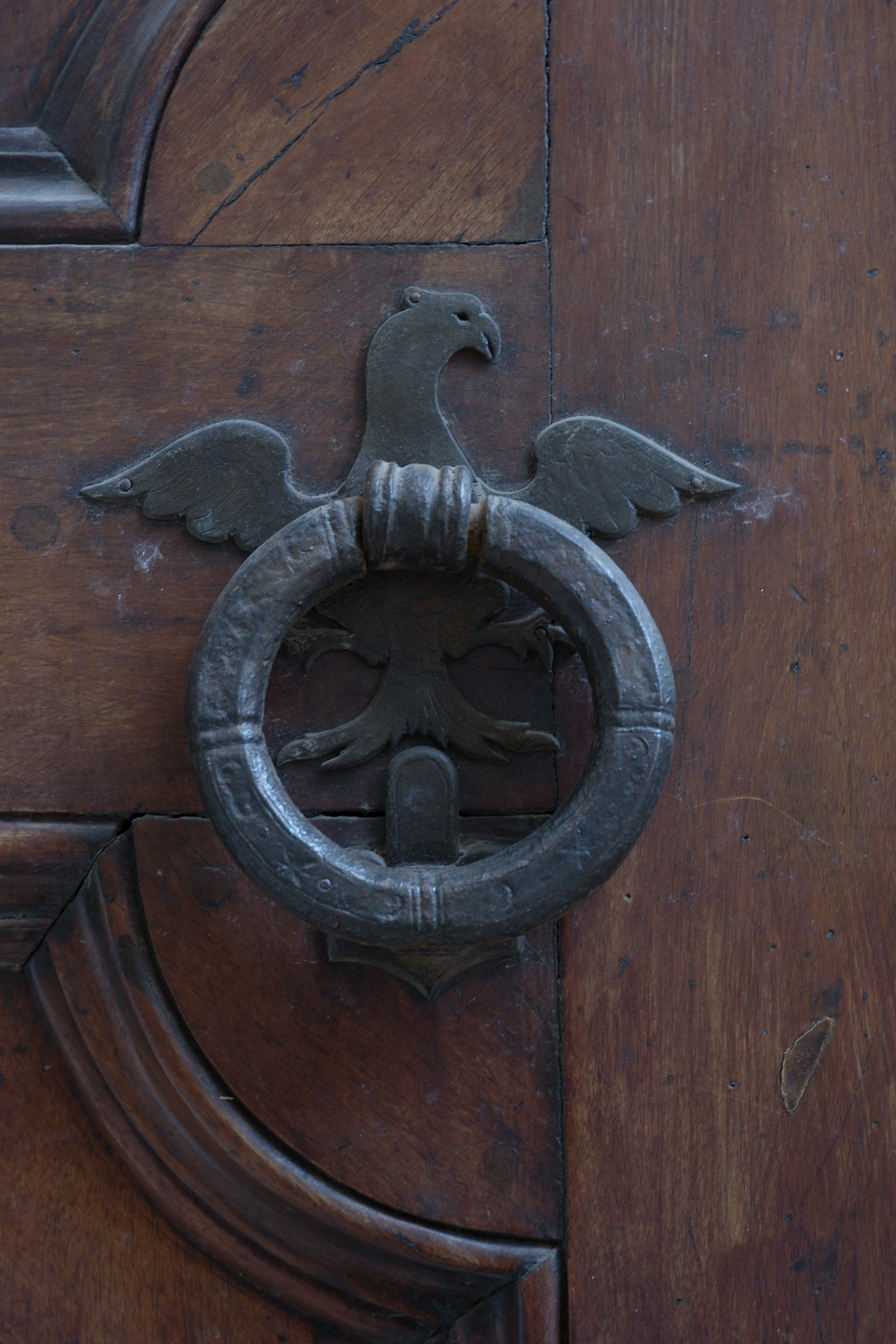 Door knocker of Palazzo Corboli Aquilini in Urbino